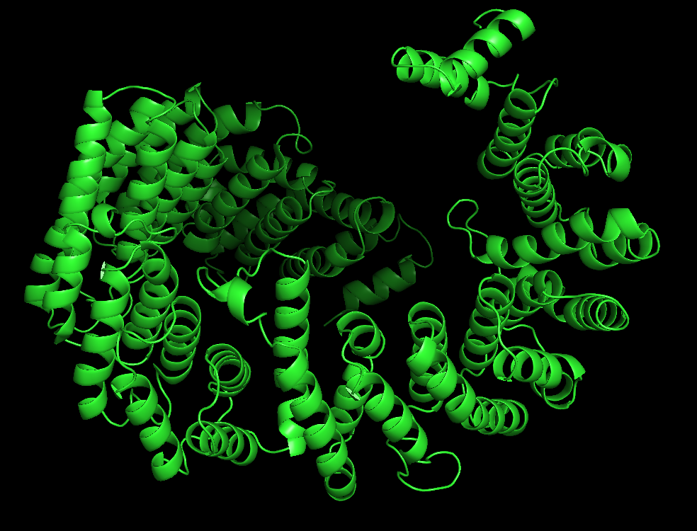 Predicted 3-D structure of C1orf112 predicted using I-tasser server for protein structure and function prediction. Predicted output is one of five potential structures, but had the highest statistical significance.